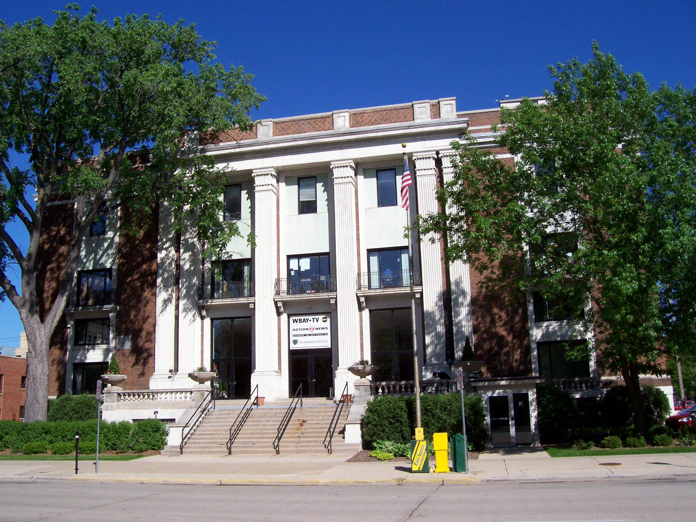 The studios for tv station WBAY-TV and all of the Midwest Communications radio stations in Green Bay, Wisconsin, USA (including WIXX-FM, WNCY-FM, etc.) Midwest Communications is currently building new studios for all of its stations.